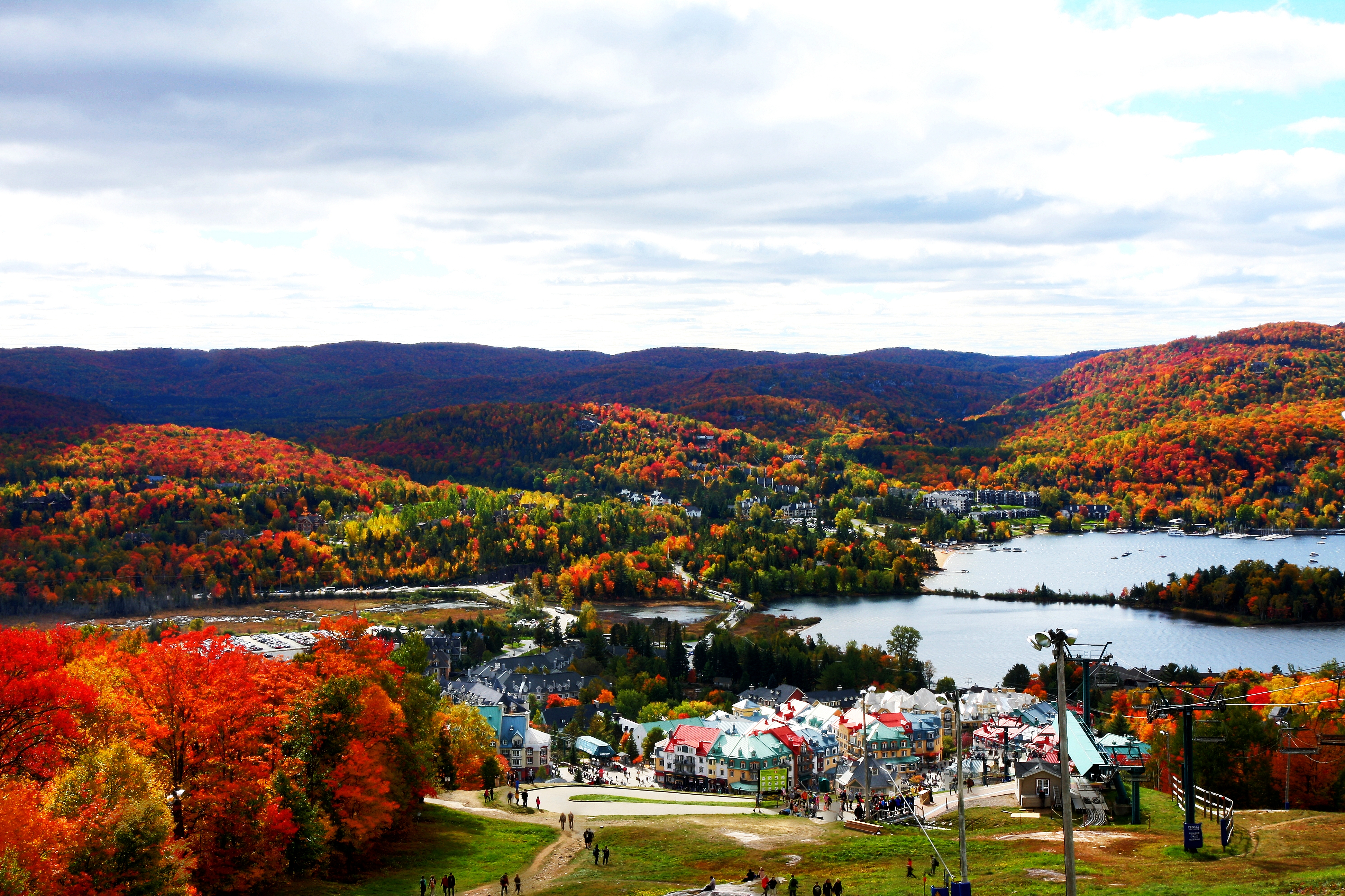 Beautiful colors of the fall season at Mont Tremblant. This photo was taken in a protected area in Canada, Wikidata item Mont-Tremblant National Park (Q252793)